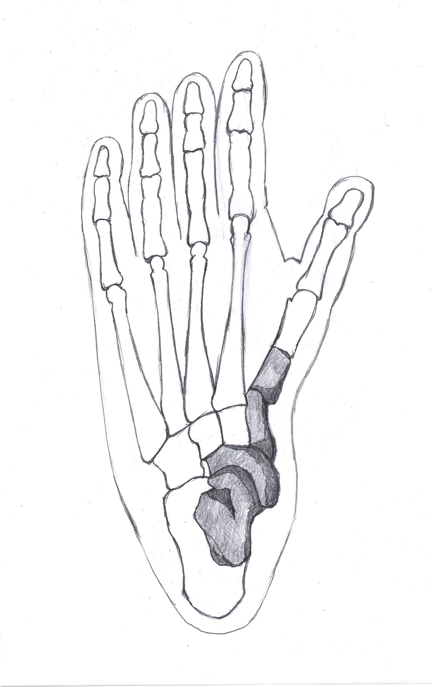 Footbones of Little Foot(Stw 573 sceleton of Australopithecus) from South Africa. Own drawed remake from "Science" on 28 July 1995.